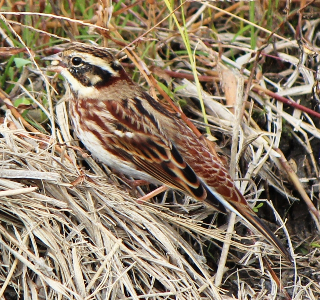 Emberiza rustica latifascia (Rustic Bunting) eating ear of rice in Japan.